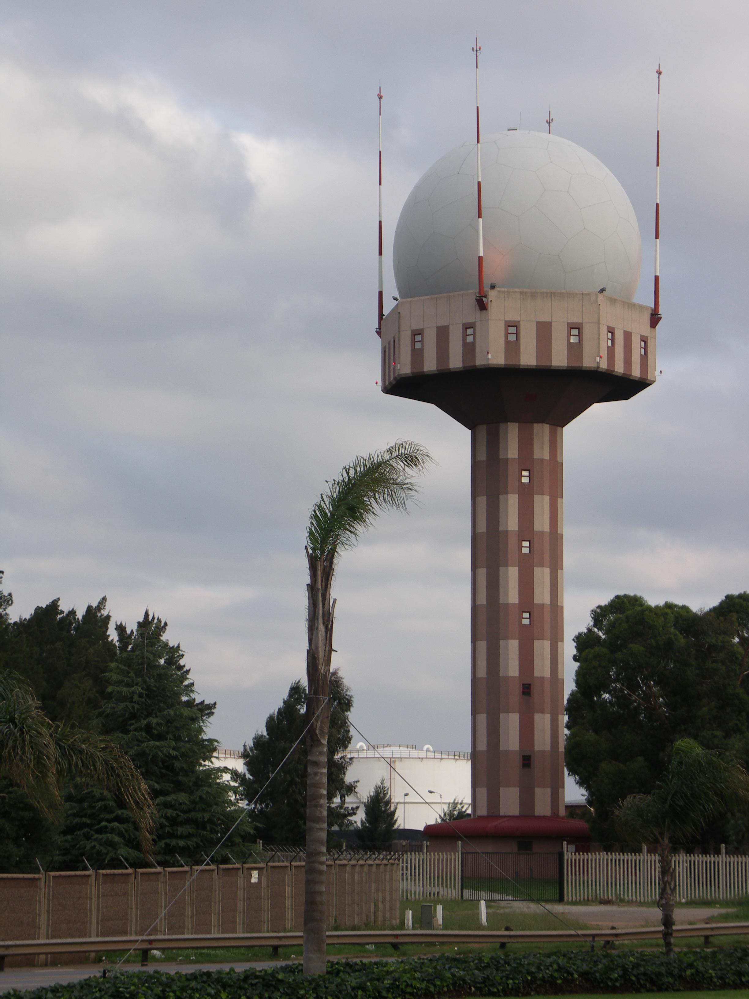 Radar Dome at OR Tambo International Airport, Gauteng, South Africa